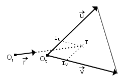 Ray triangle intersection